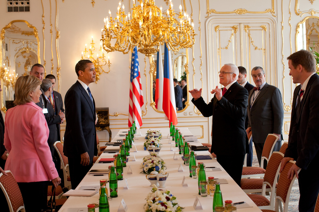 Czech Republic President Vaclav Klaus motions the U.S. delegation to sit down before their bilateral meeting. Secretary of State Hillary Rodham Clinton and National Security Advisor James L. Jones are behind Obama.